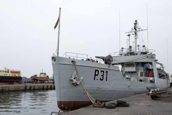 Ghana Navy ship GNS Bonsu (ex-USCGC Sweetbrier) at Tema, Ghana in March 2015